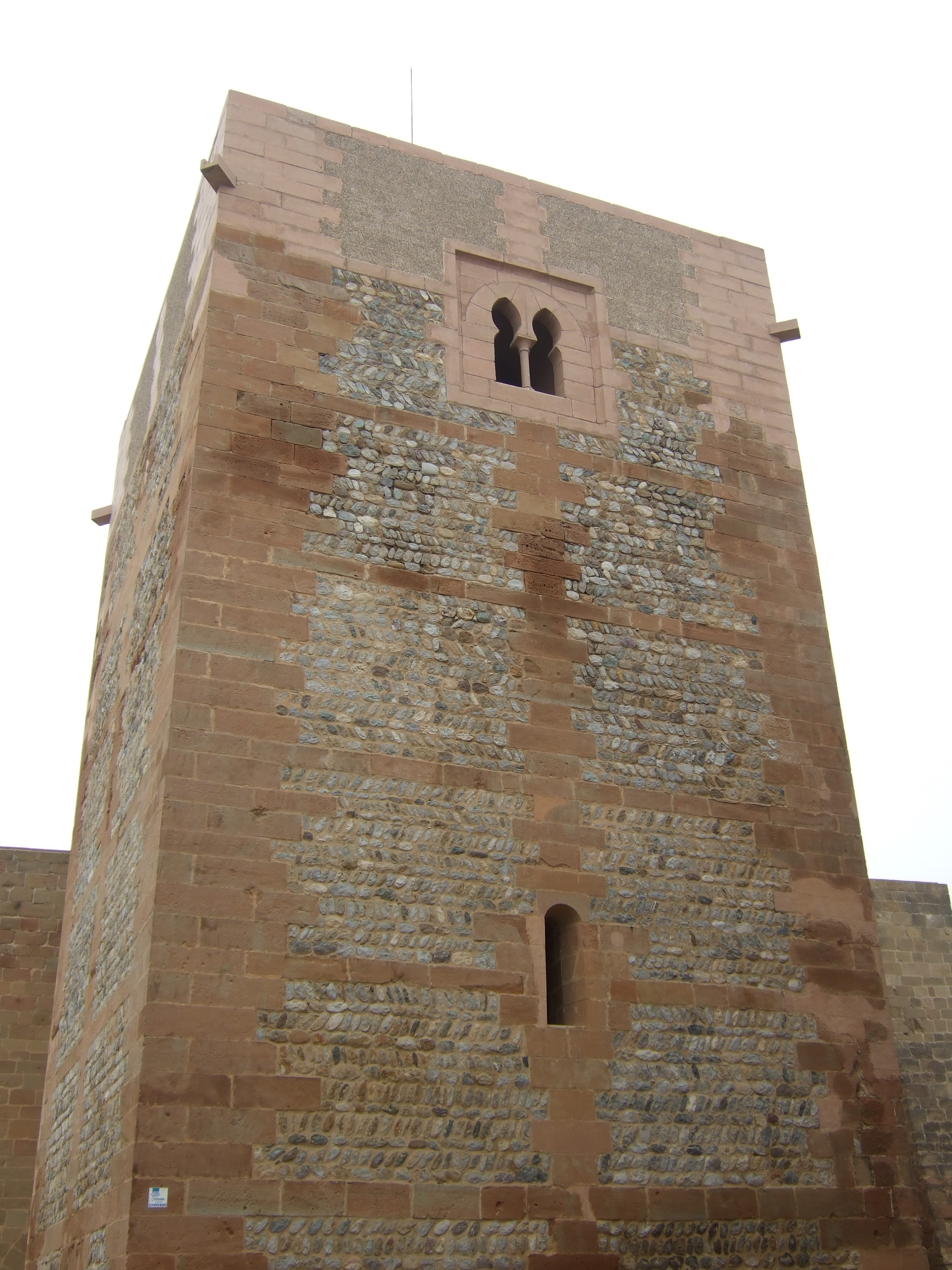 Castle of Monzon (Aragon, Spain)